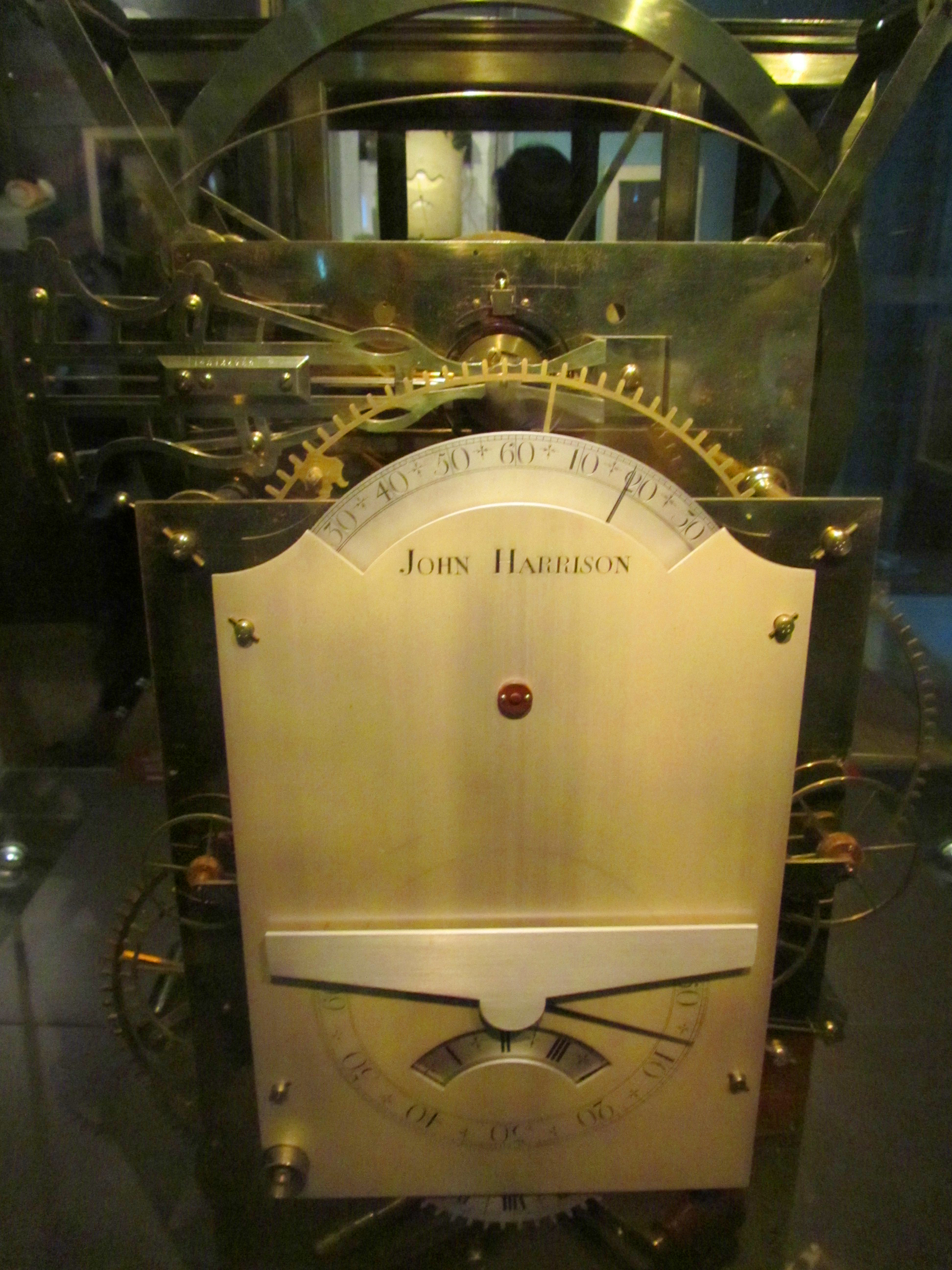 Harrison's third timekeeper H3: This timekeeper took 19 years to build. In 1759 it was not quite accurate enough to win the 20,000 pound prize.